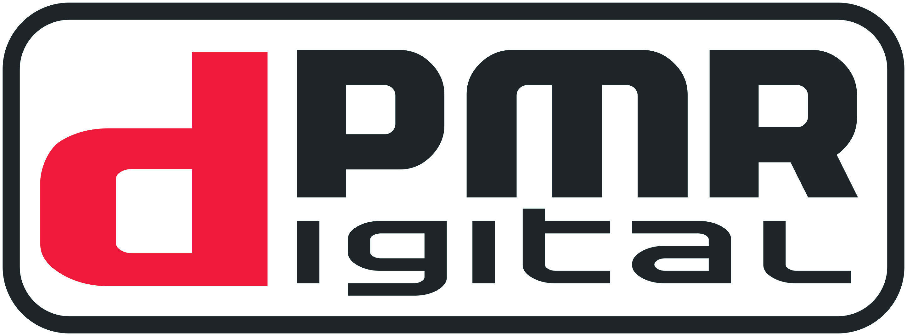 dPMR logo from dPMR Association